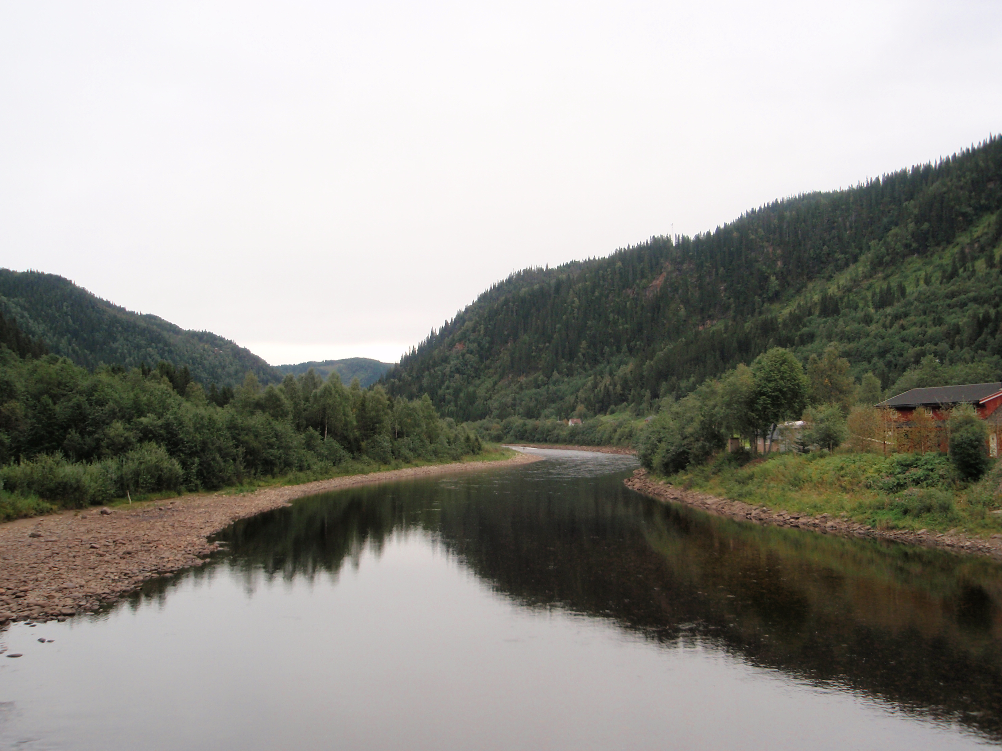 The Gaula River in Sør-Trøndelag county, Norway. Photo taken from the bridge at the village of Kotsøy.